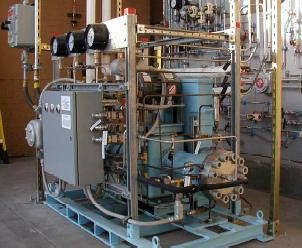 three-stage diaphragm compressor for compressing hydrogen gas to 6000 psi